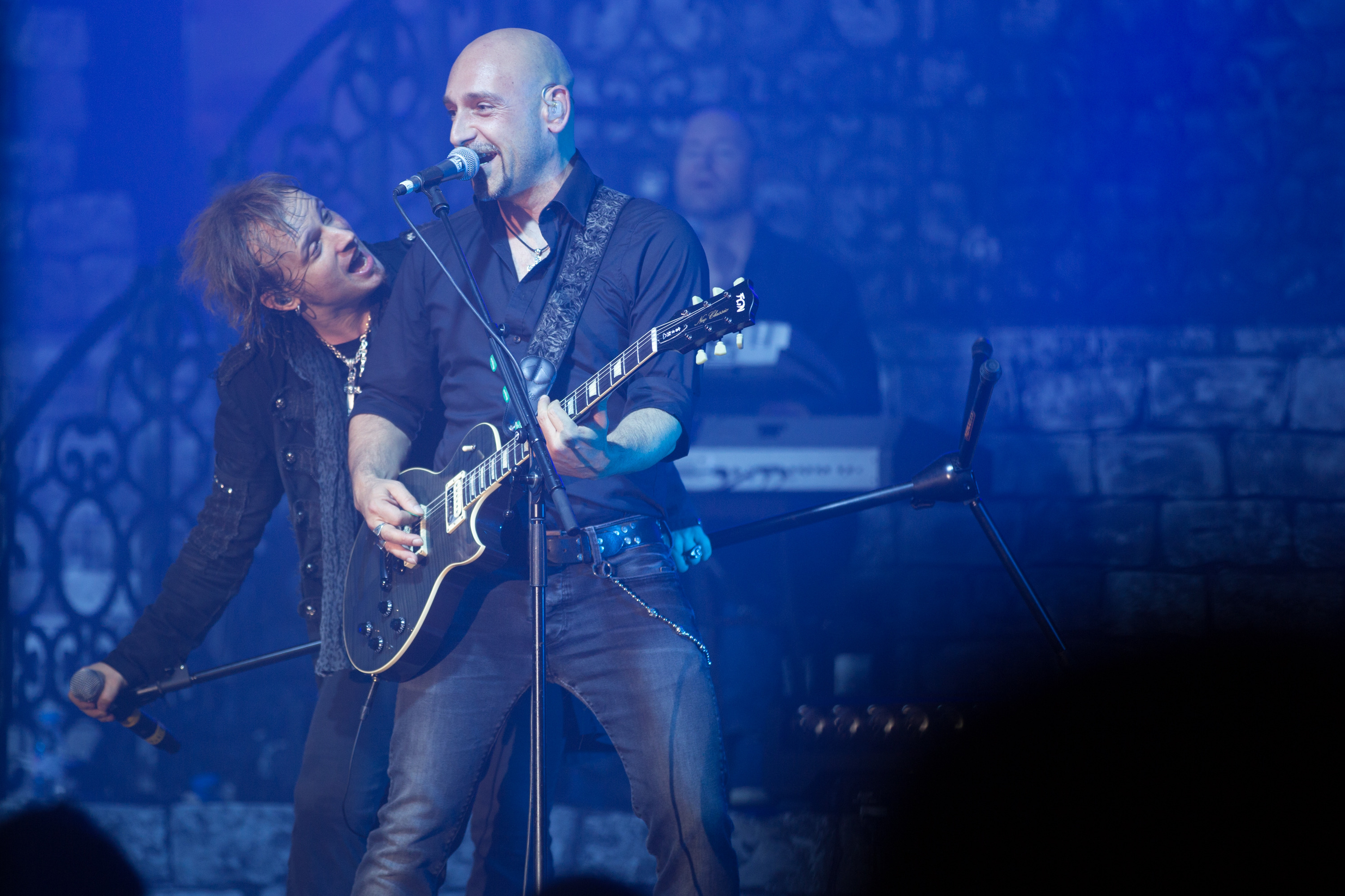 Avantasia at Turbinenhalle Oberhausen on 20th March 2016